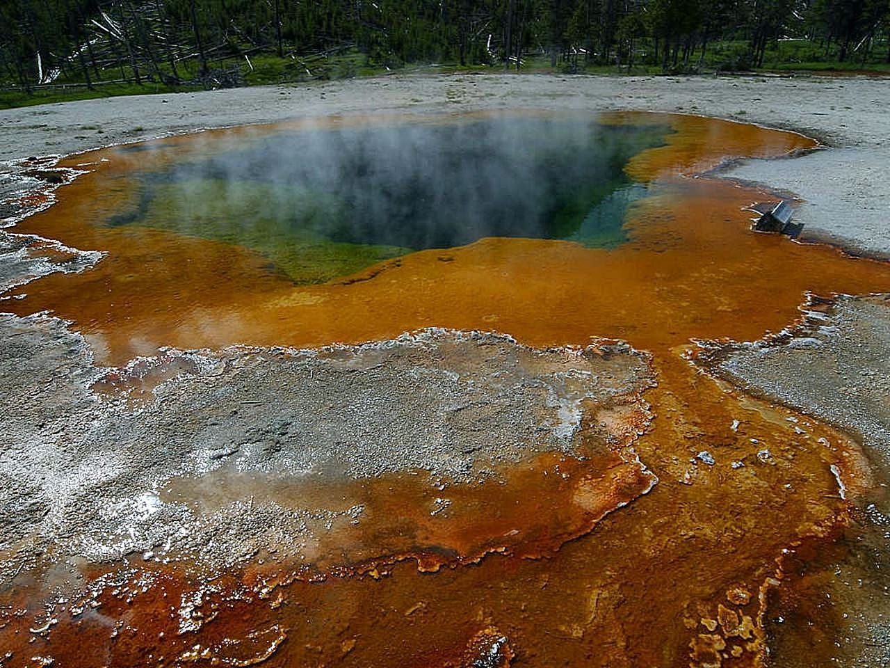 Image title: Emerald pool hot spring Image from Public domain images website